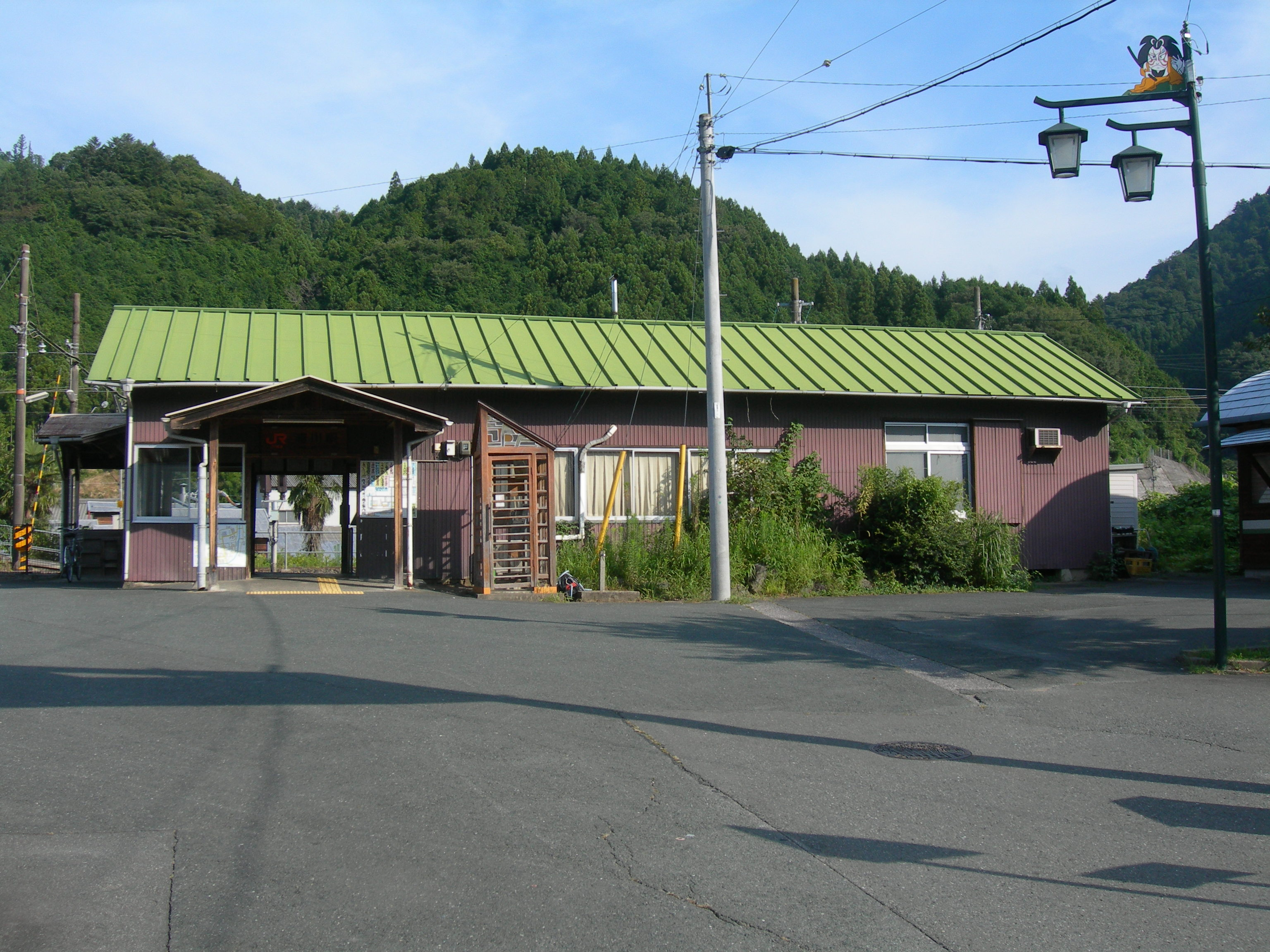 Urakawa Station on Iida Line, in Hamamatsu City, Shizuoka Prefecture, Japan